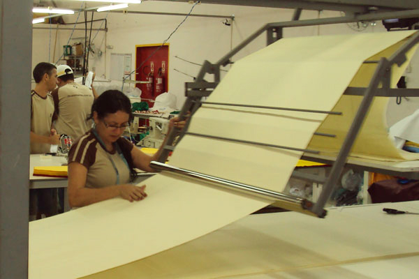 i9 Camisetas Company